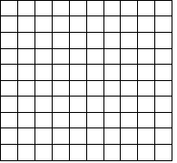 For teaching fractions and decimals